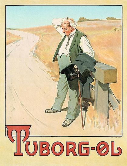 Poster by Erik Henningsen for Tuborg Beer (1900)